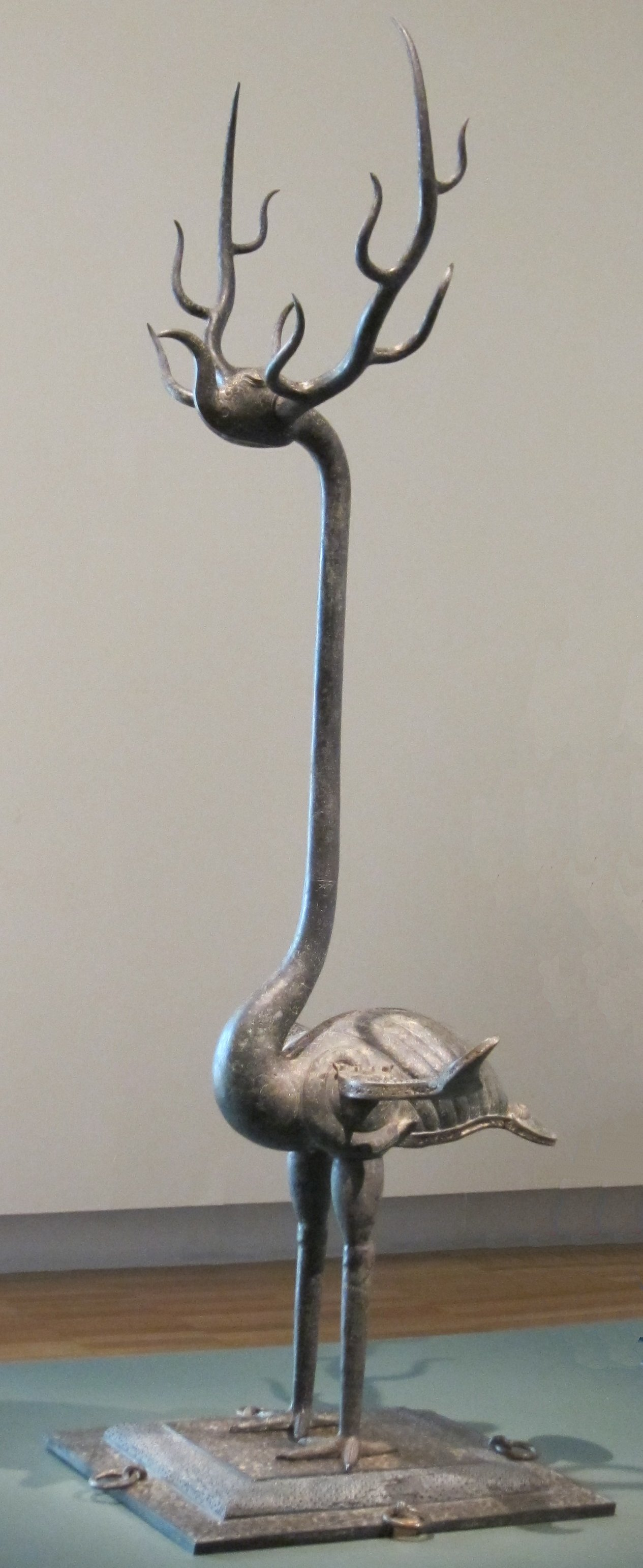 Chinese bronze sculpture of an antlered crane, Warring States period, mid 400s BCE, excavated from the tomb of Marquis Yi of Zeng at Leigudun, Sui County, Hubei Province